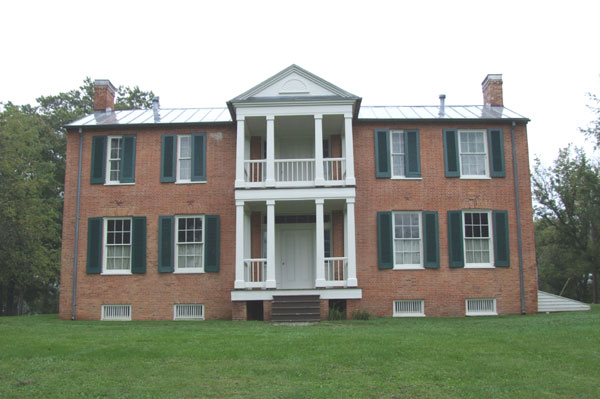 Photo snapped by Bryan Bush and given to me to place on Wikipedia under GFDL. I cropped, brightened and reduced the image, and I release those changes under GFDL as well.